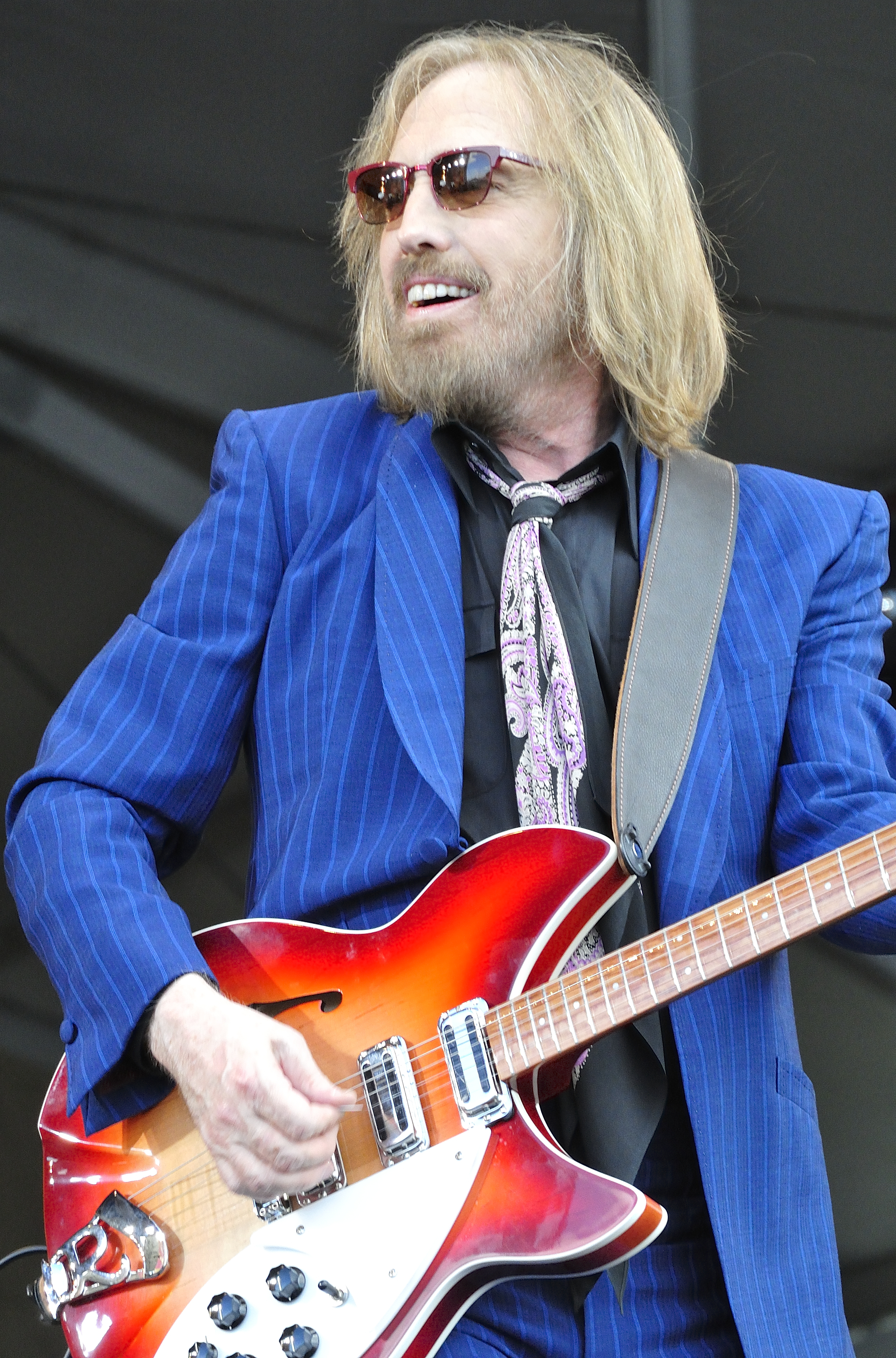 Tom Petty & The Heartbreakers - New Orleans Jazz & Heritage Festival 2012